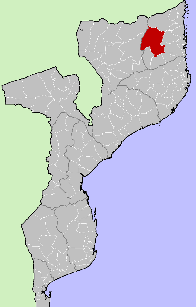 District locator in Mozambique